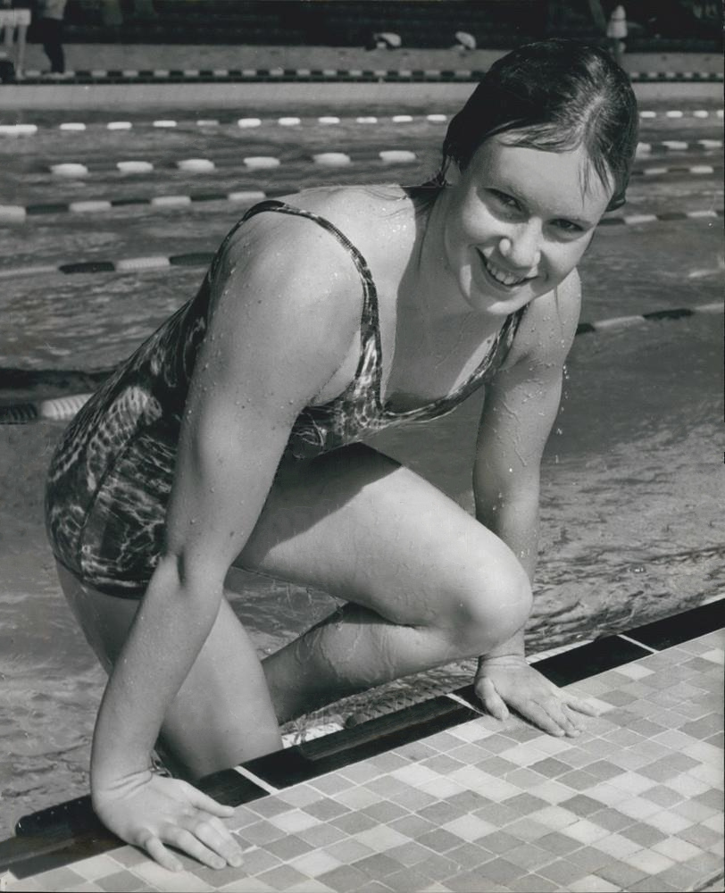 1971 Press Photo Swimmer Karen Moras After Breaking Record World Freestyle